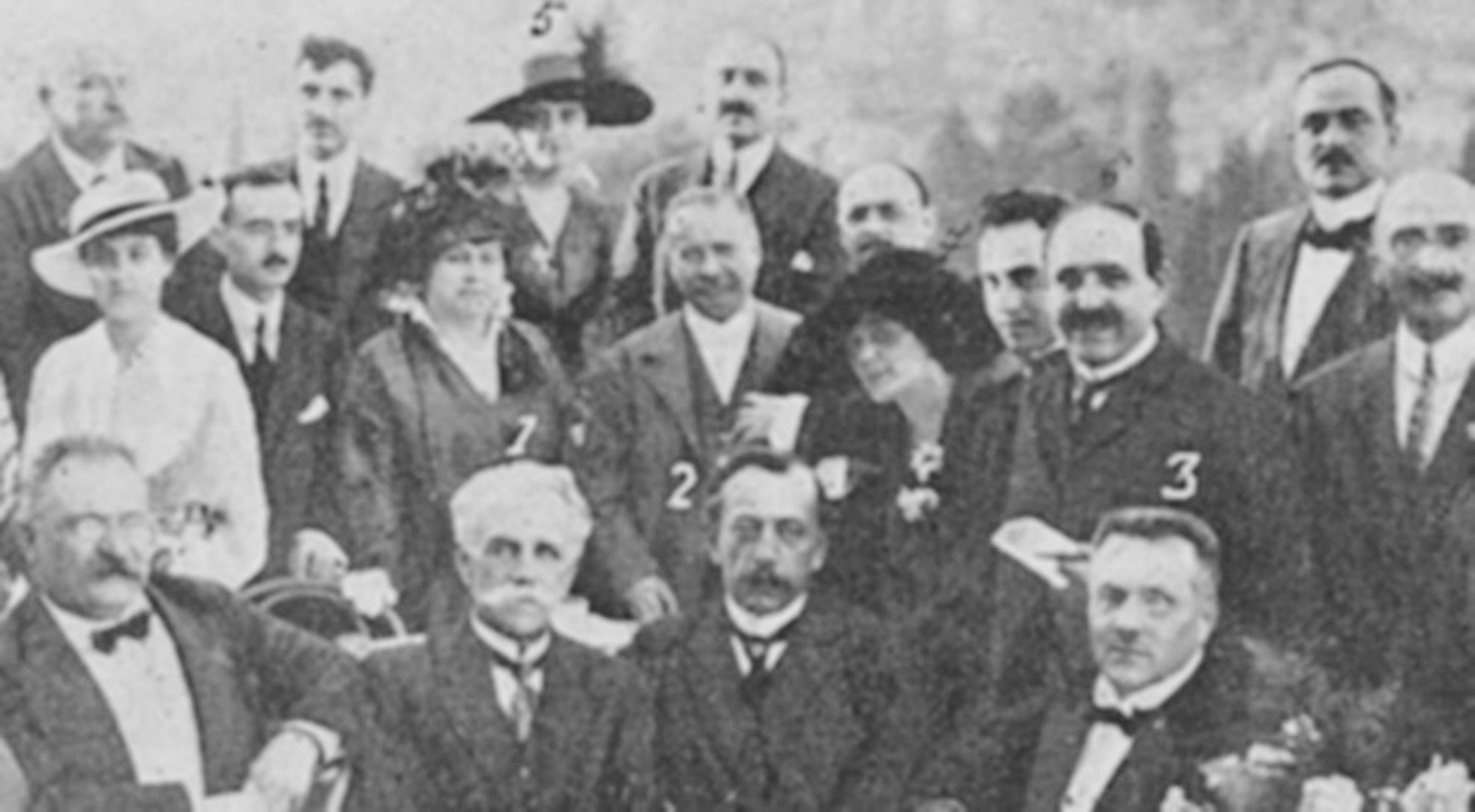 The pro-Entente and pan-Latinist society Latina Gens, honoring Portuguese visitor Sebastião de Magalhães Lima (pictured, #1) with a banquet in Rome. Also present are: Jules Destrée, the Belgian refugee politician (#2); Giuseppe Leti (#3) and Mario di Ferro (#6), Latina Gens leaders; Elena Bacaloglu, the Romanian writer (#5); and Orsetta Orsatti (#7), poetess.